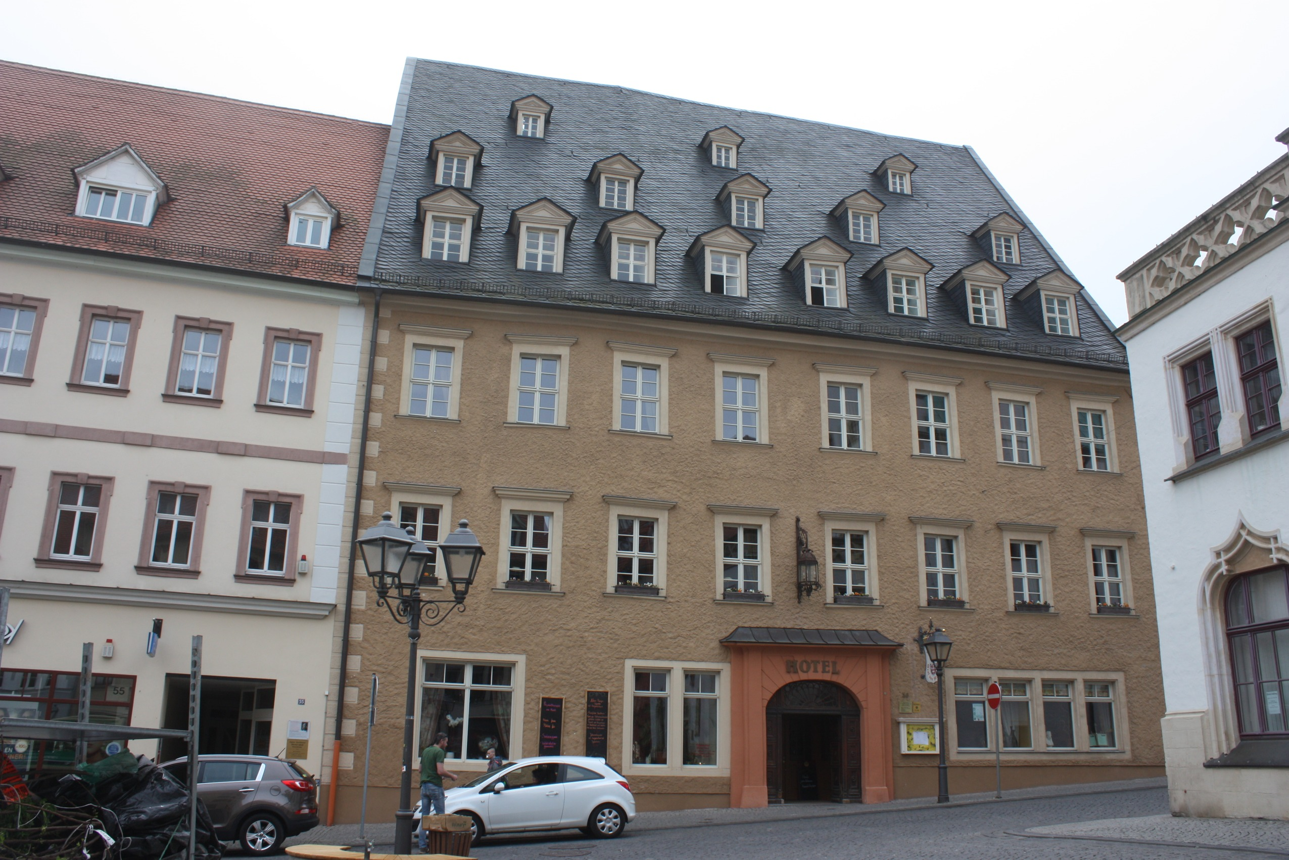 Eisleben, the hotel "Graf von Mansfeld"